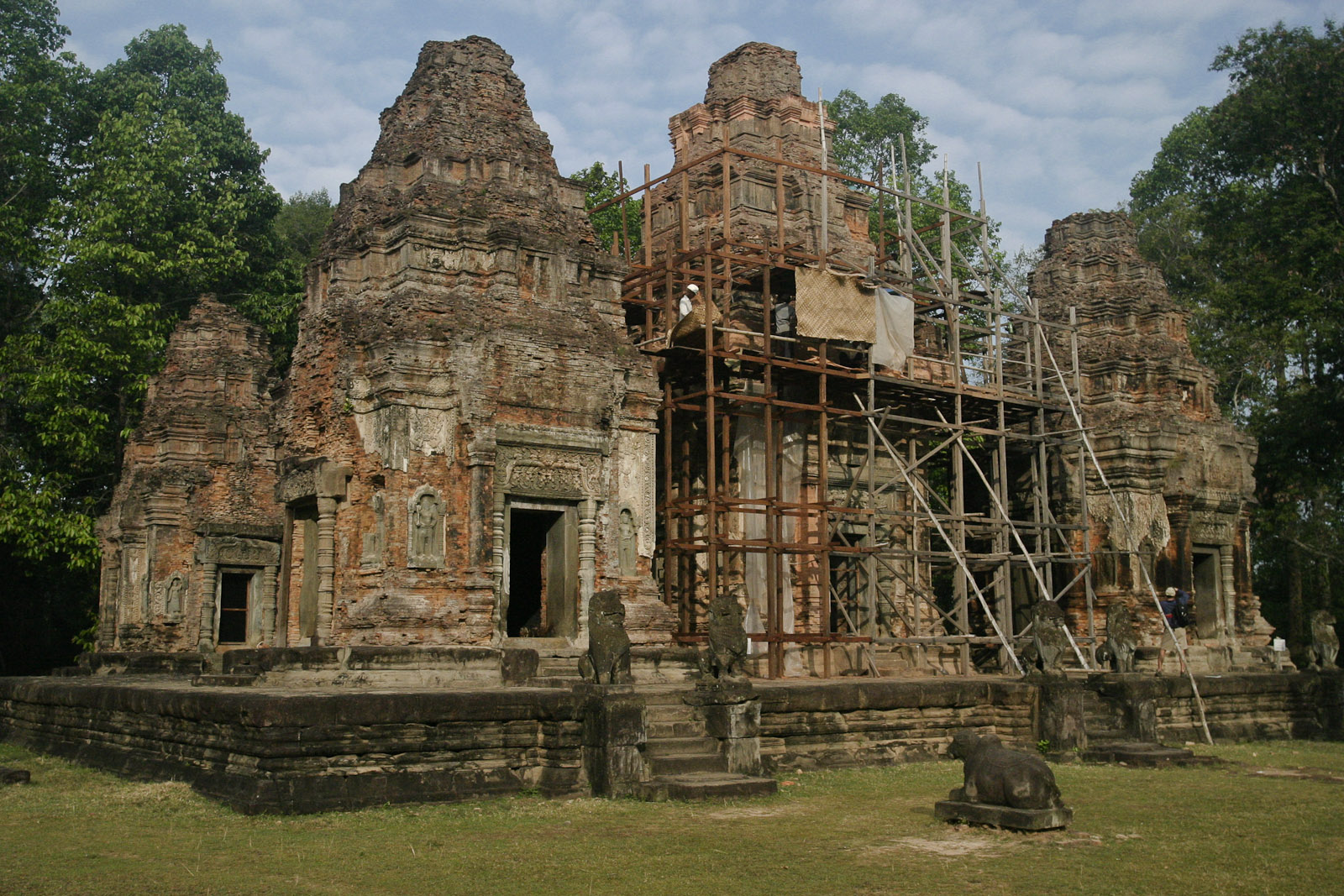 Preah Ko - Towers from the SE